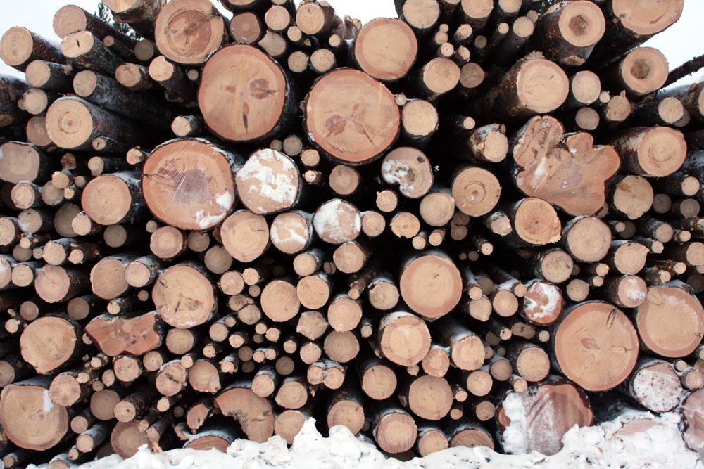 Intact Forest Landscape being logged in Northern Finland, January 2009. Location: Jooseppitunturi, Savukoski, Lapland. Hundreds of years old ancient forest is trashed for pulp and paper for Finnish paper giant Stora Enso, by governmental logging body Metsahallitus. According to 250 Finnish researchers and scientists, logging in old-growth forests is unsustainable and in conflict with international agreements that Finland has signed to protect biodiversity.